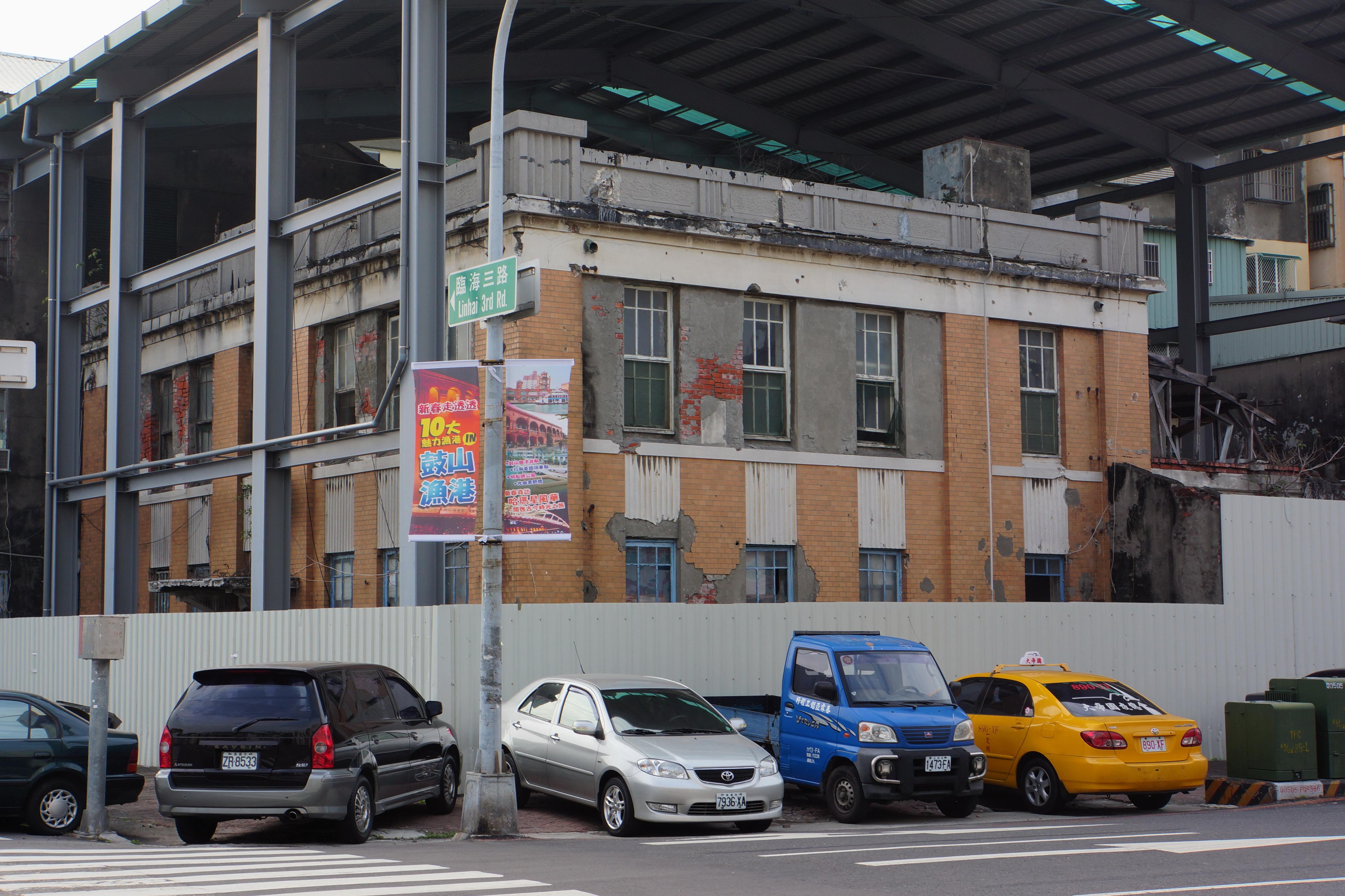 三和銀行舊廈 Old Building of Sanwa Bank